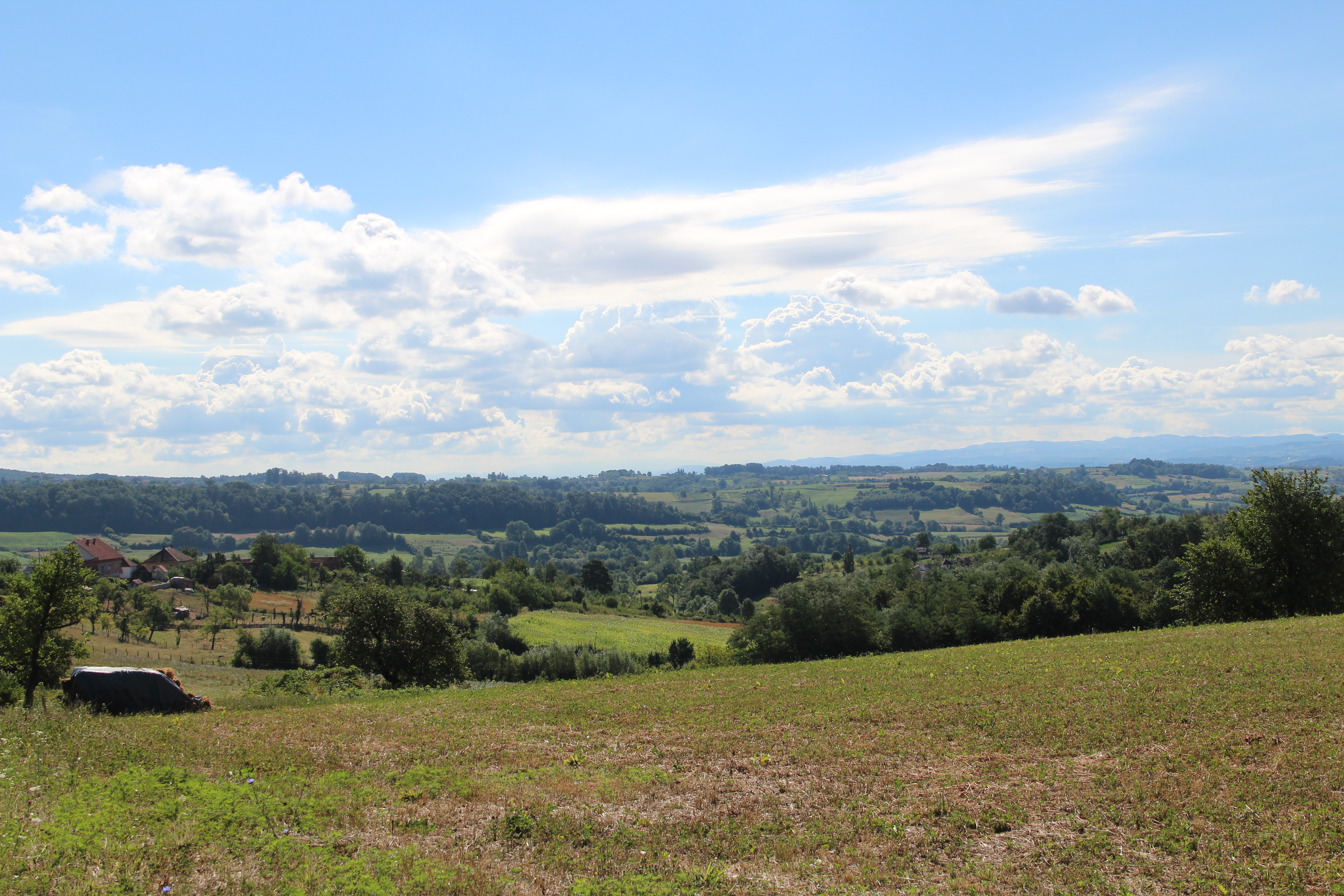 Stapar village - Municipality of Valjevo - Western Serbia - Panorama 3